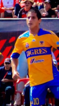 Brazilian player Danilinho